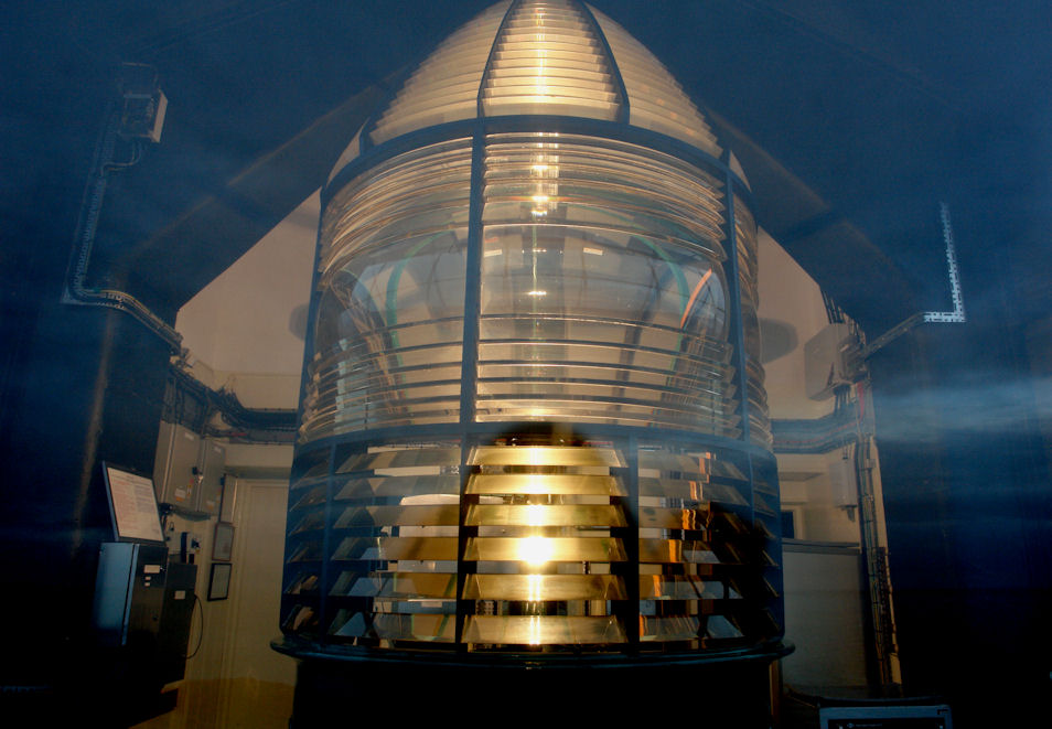 Not unlike something from Doctor Who, the light at Point Lynas Lighthouse, glass manufactured by Chance Bros.